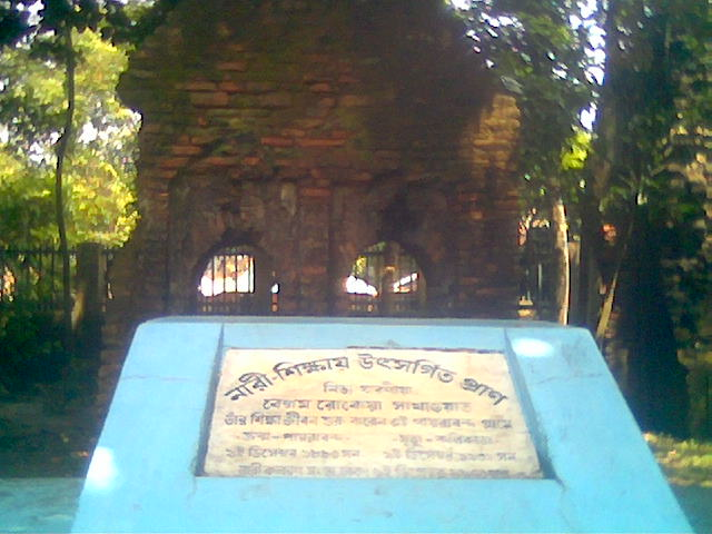 View of the birth place of Begum Rokeya in Pairabondh, Rangpur.